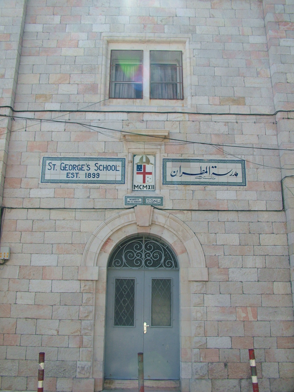 Jerusalem - Saint George School